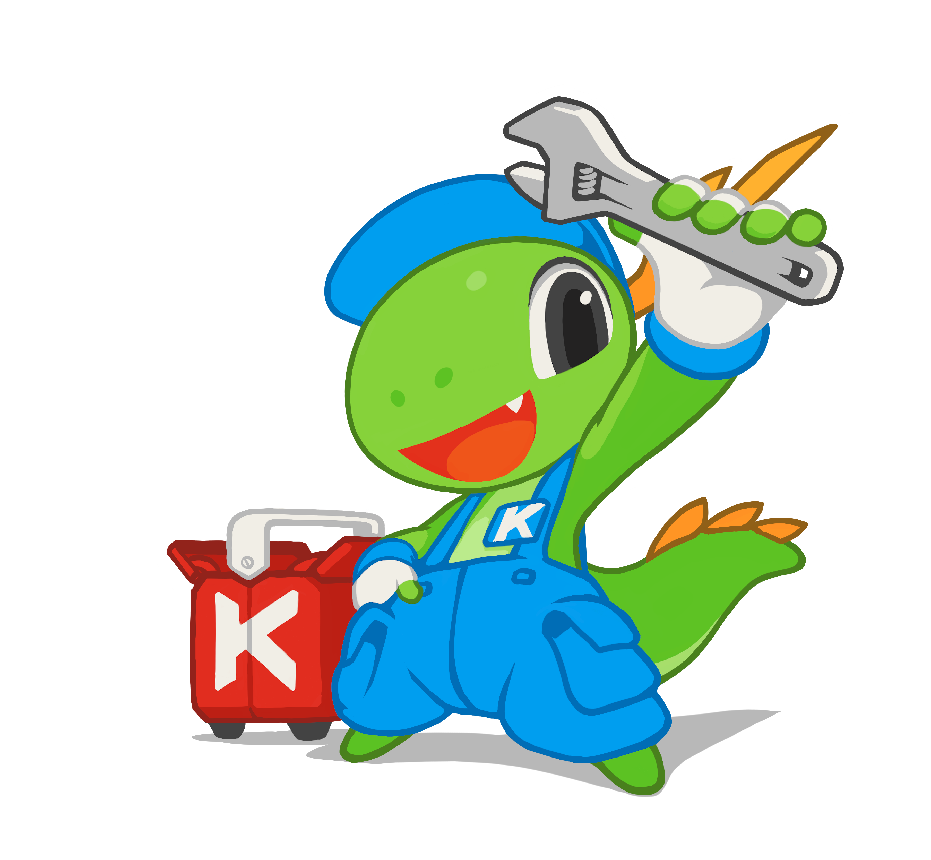 KDE mascot Konqi for utility applications.